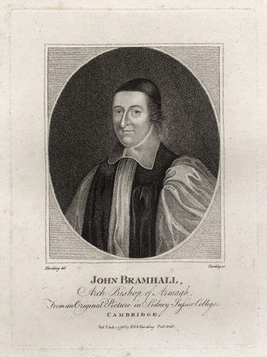 Portrait of John Bramhall (1594 – 1663), Archbishop of Armagh.